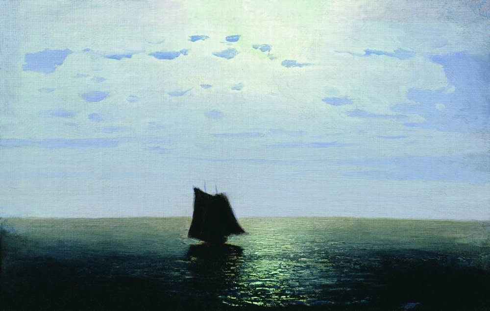 Moon night in the sea (painting by Arkhip Kuindzhi)